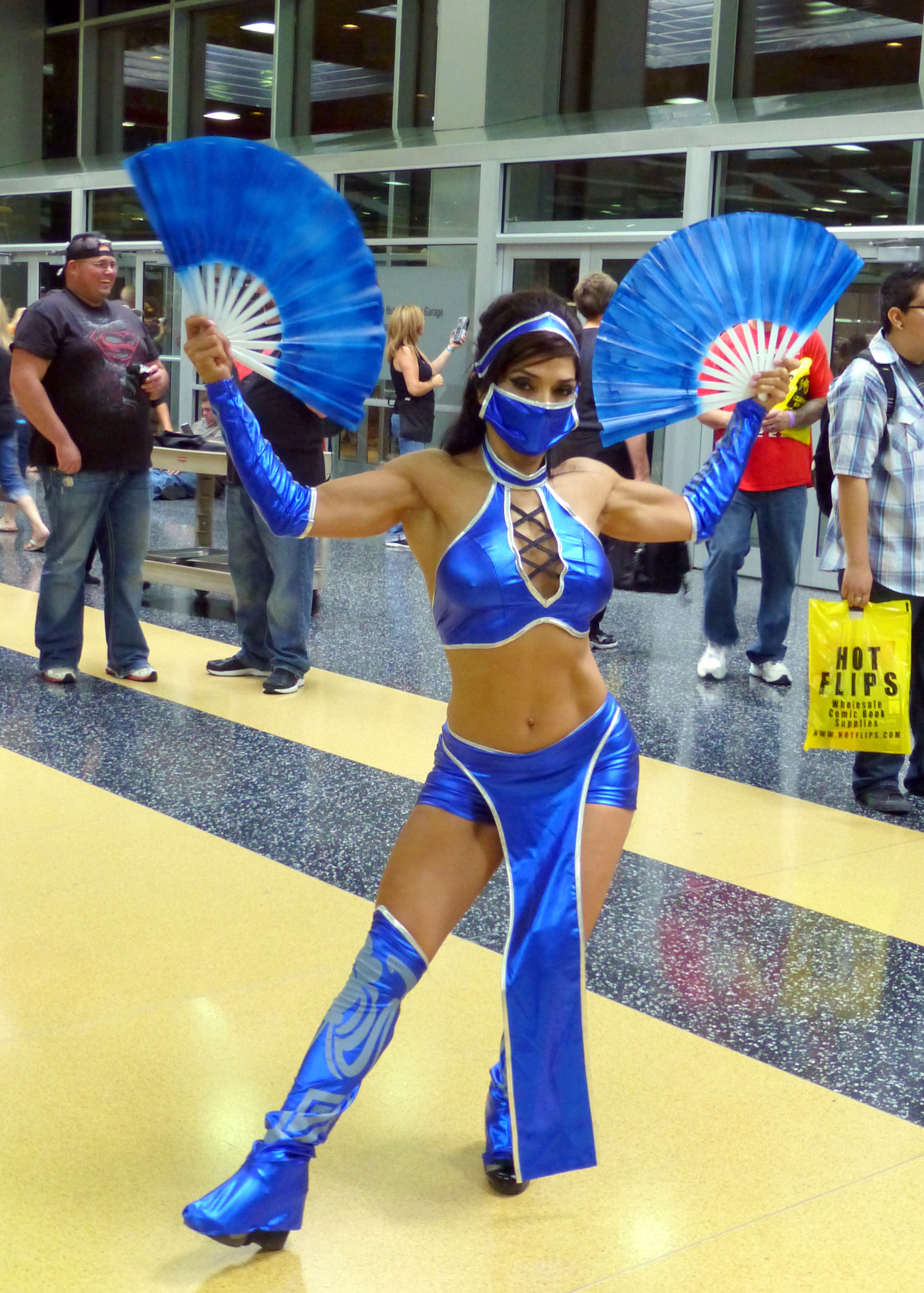 A cosplayer of Kitana from Mortal Kombat.